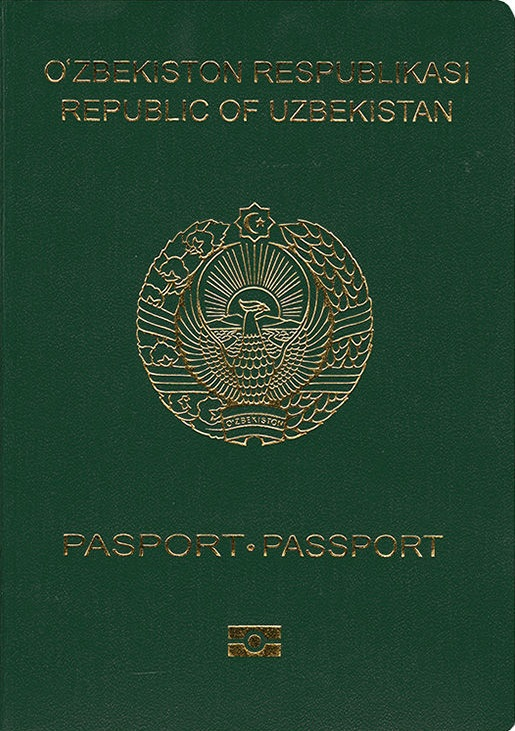 Passport of Uzbekistan